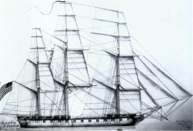 Sail Plan of the USS Congress (1799) by sailmaker Charles Ware.